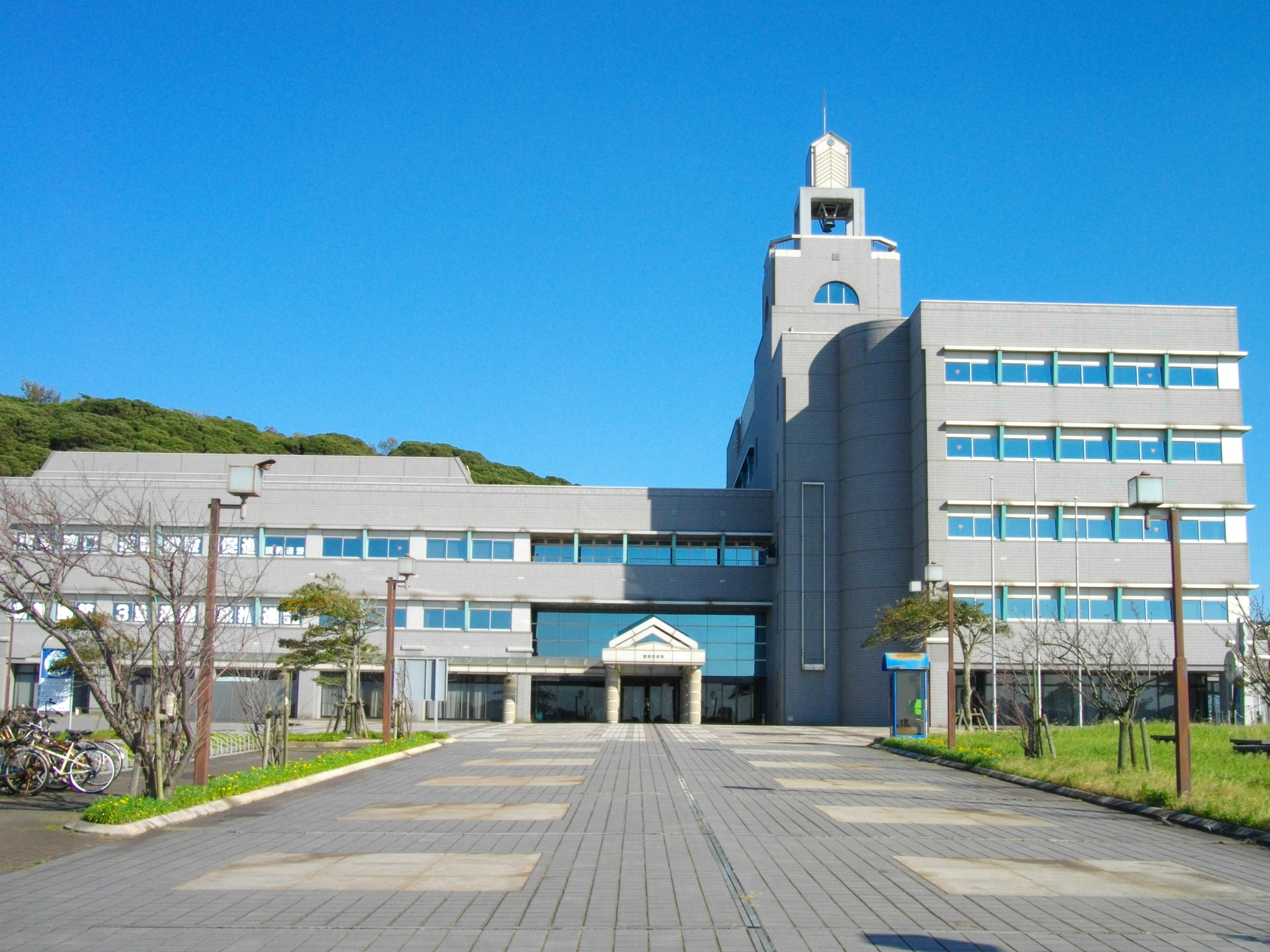 Futtsu City Hall